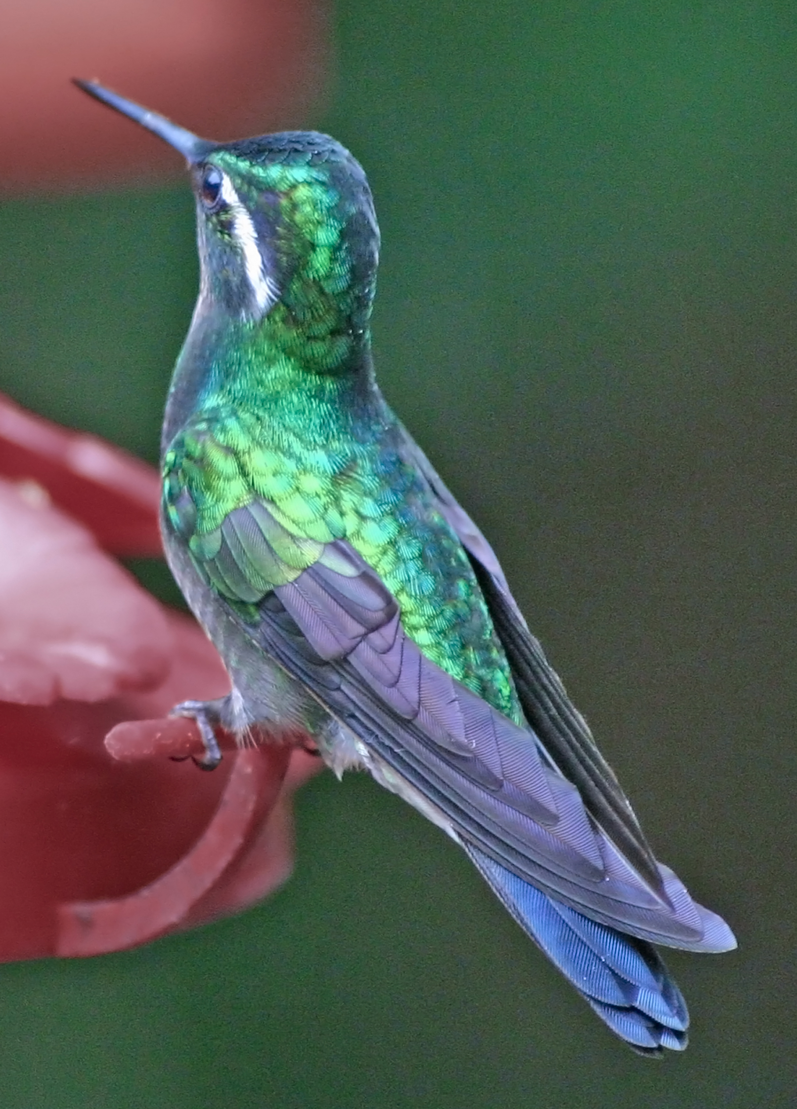 Purple-throated Mountain Gem (Lampornis calolaema) in Monte Verde, Costa Rica